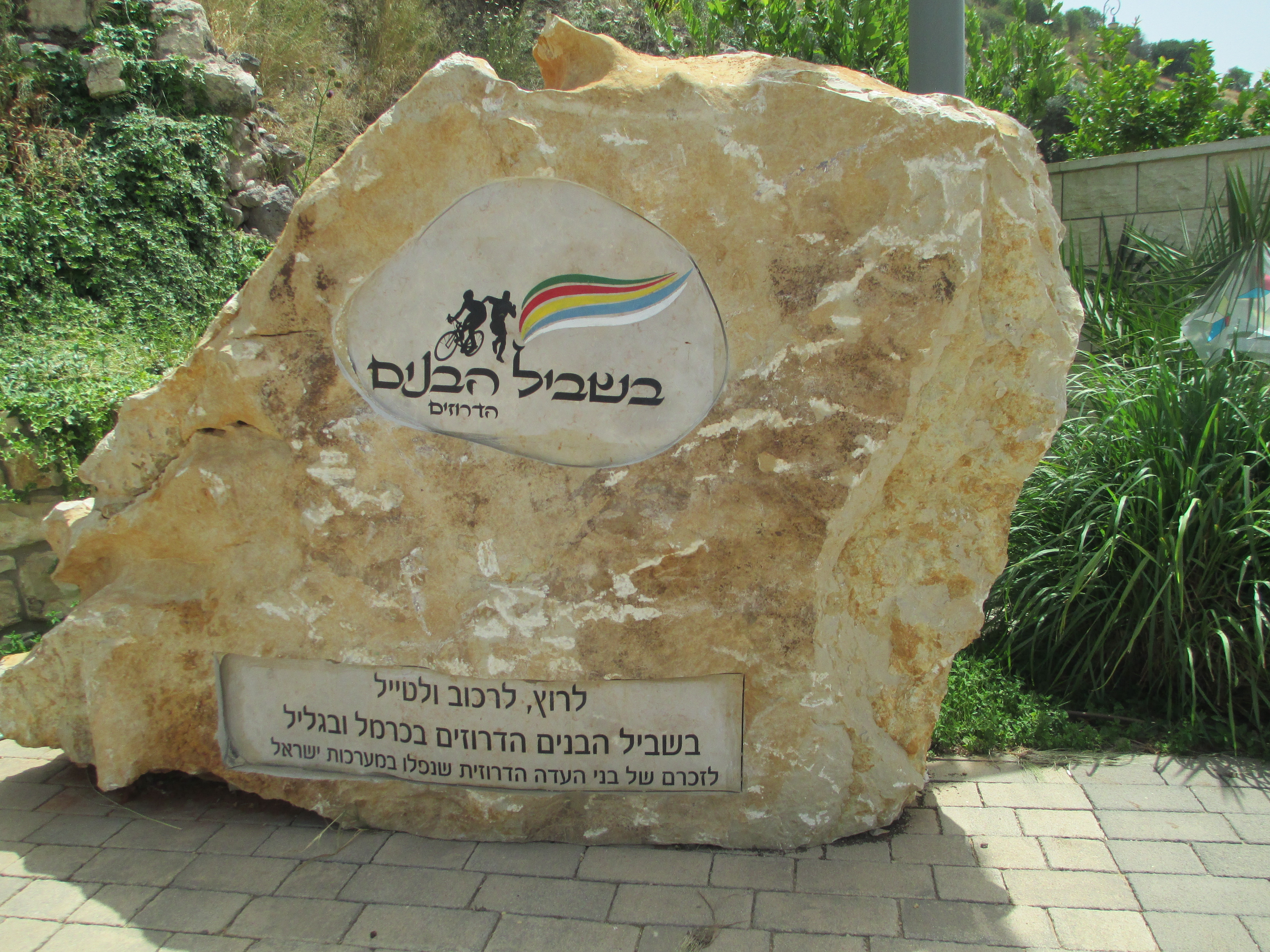 Nabi Shu'ayb